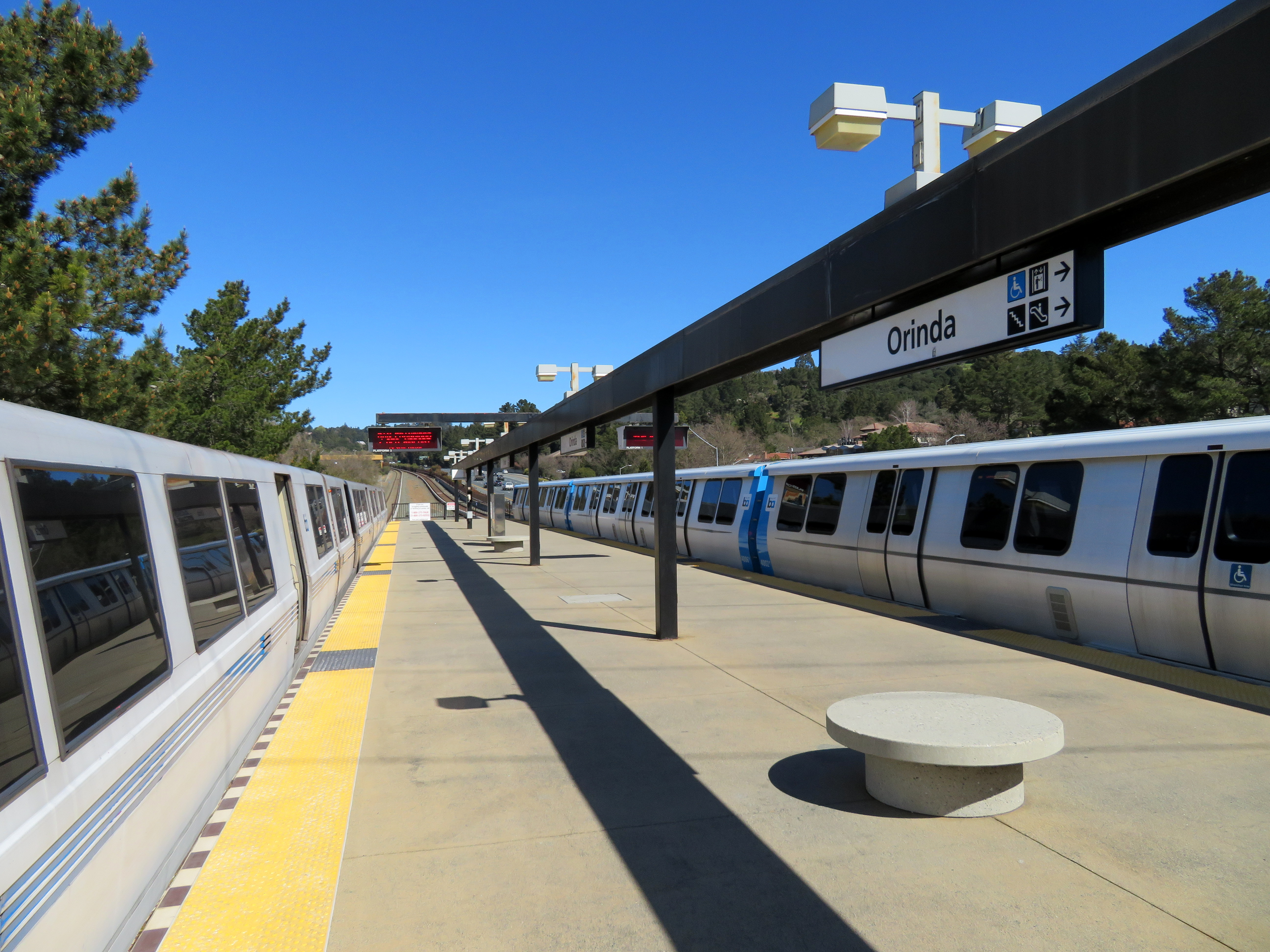 An old BART train (left) and a new train under test at Orinda station in March 2018